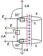 I have made this image myself.